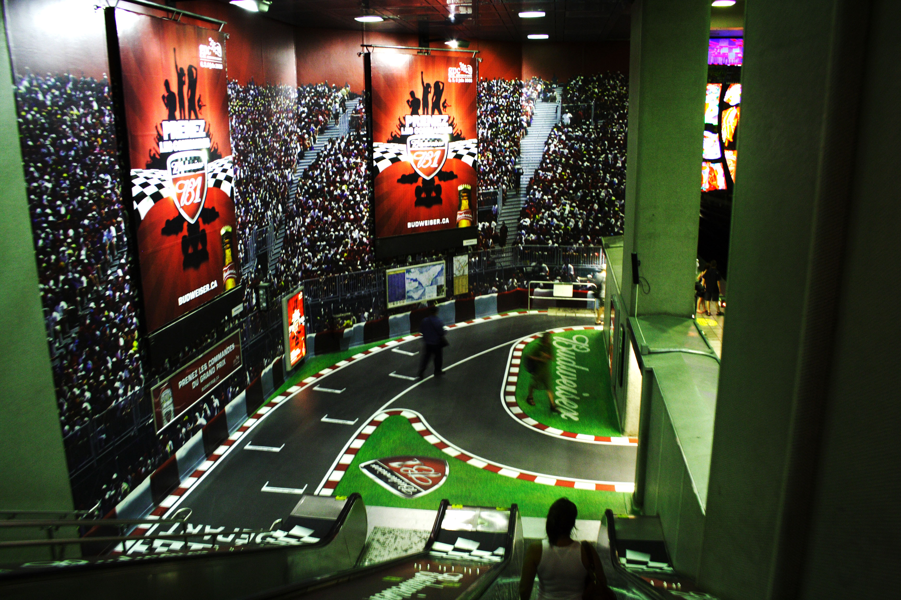 Berri-UQAM Station in Montreal Metro. 中文（香港）: 蒙特利爾地鐵巴里站。